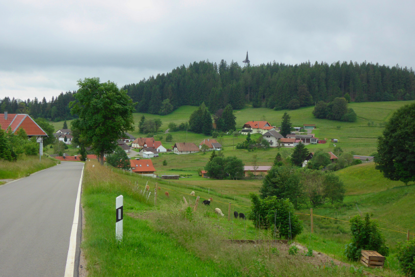 Engelschwand